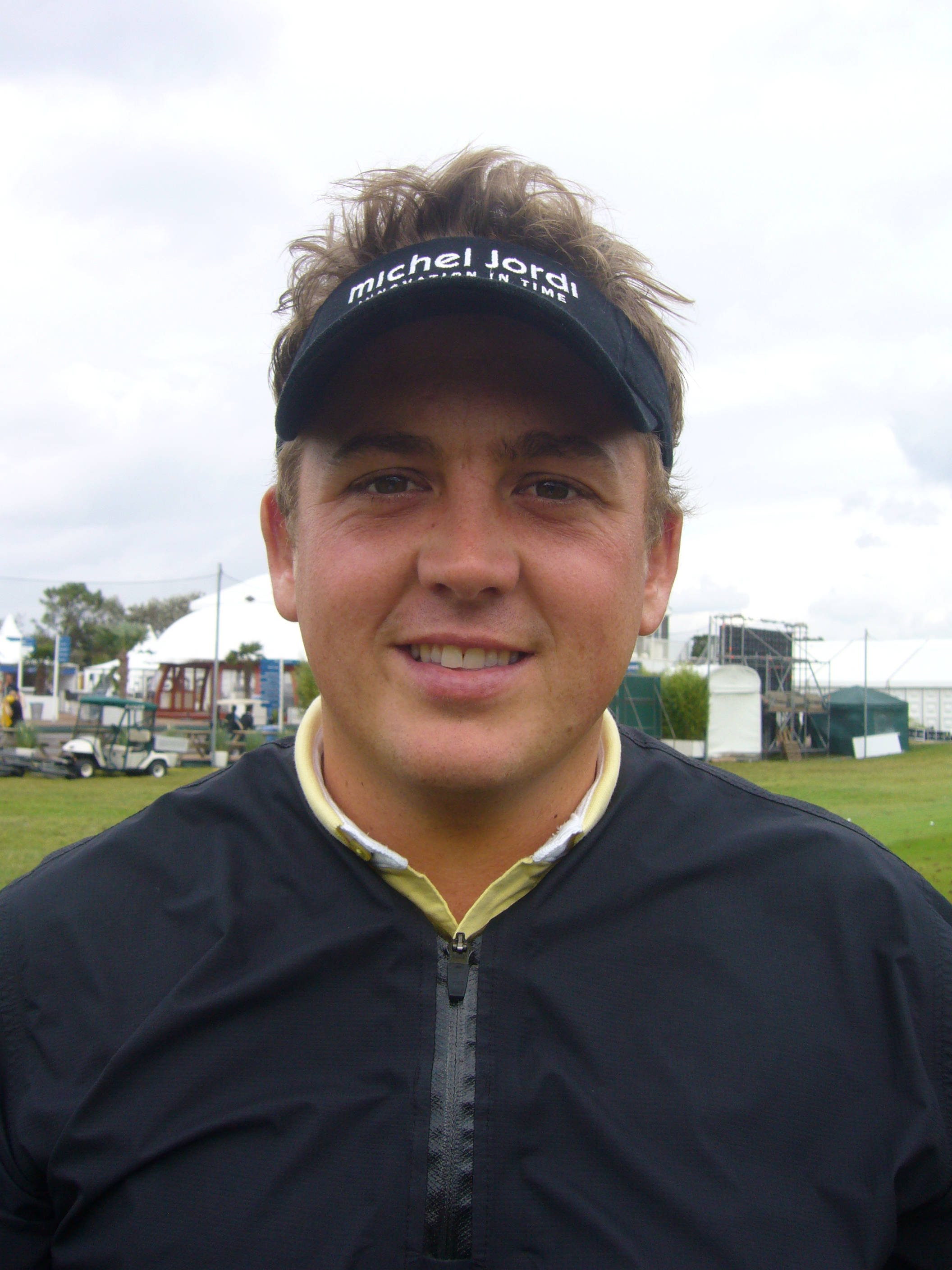 Tom Whitehouse, English golfprofessional